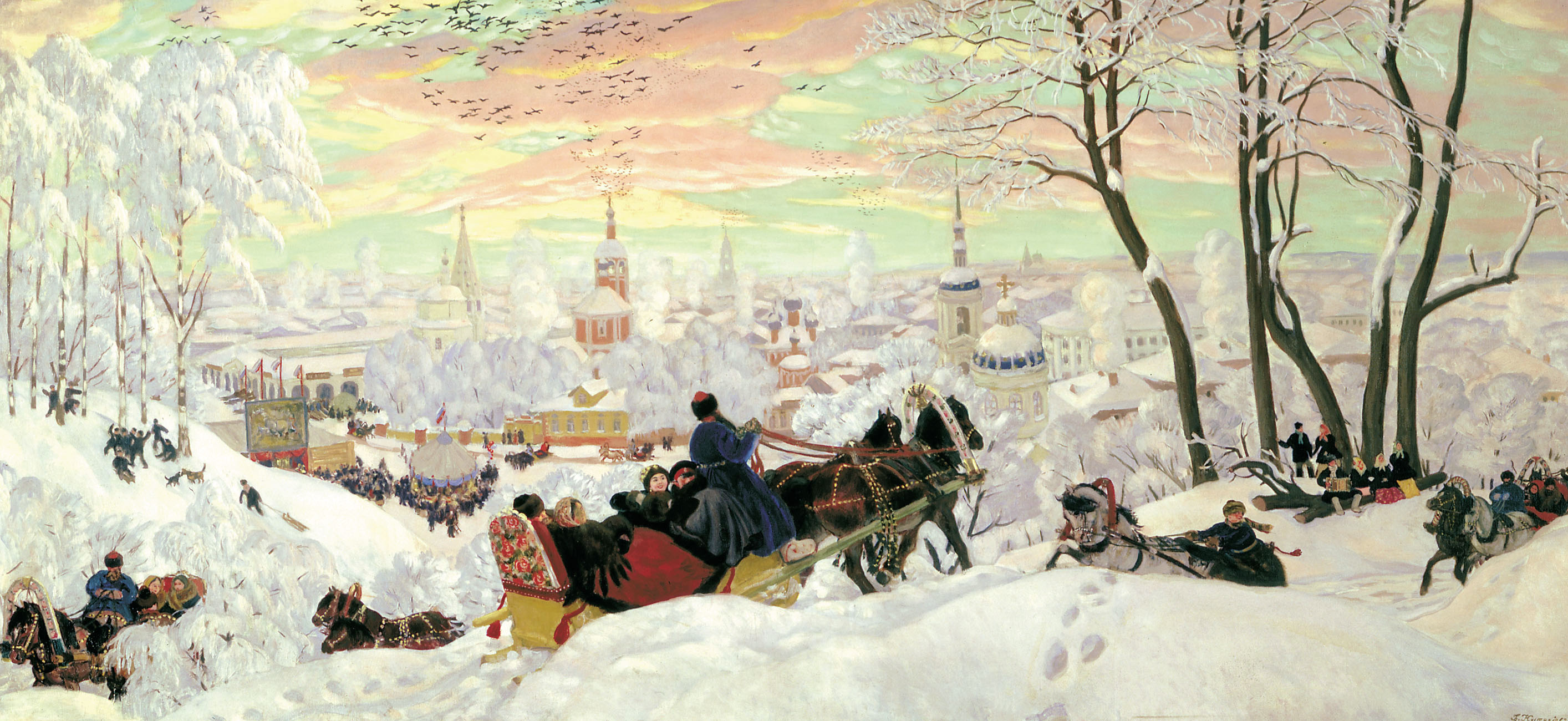 Boris Kustodiyev. Pancake Tuesday/Maslenitsa 1916. Oil on canvas. Private collection.